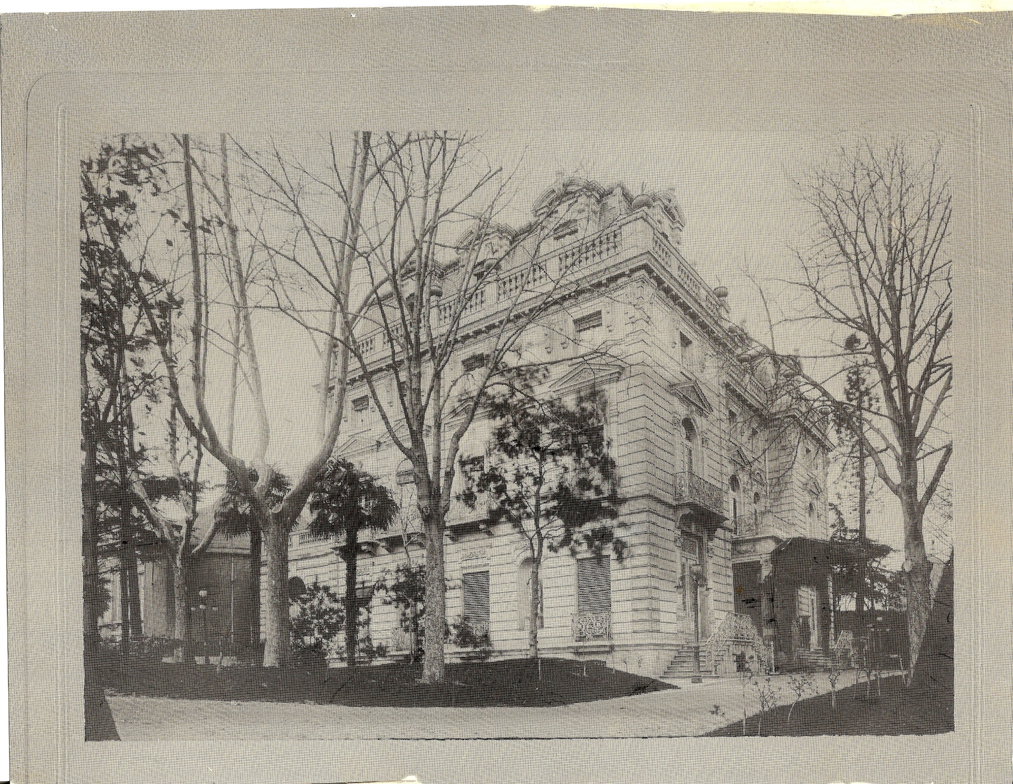 Foto de La Huerta en la Calle Serrano de Madrid, propiedad de los Marqueses de Argüelles